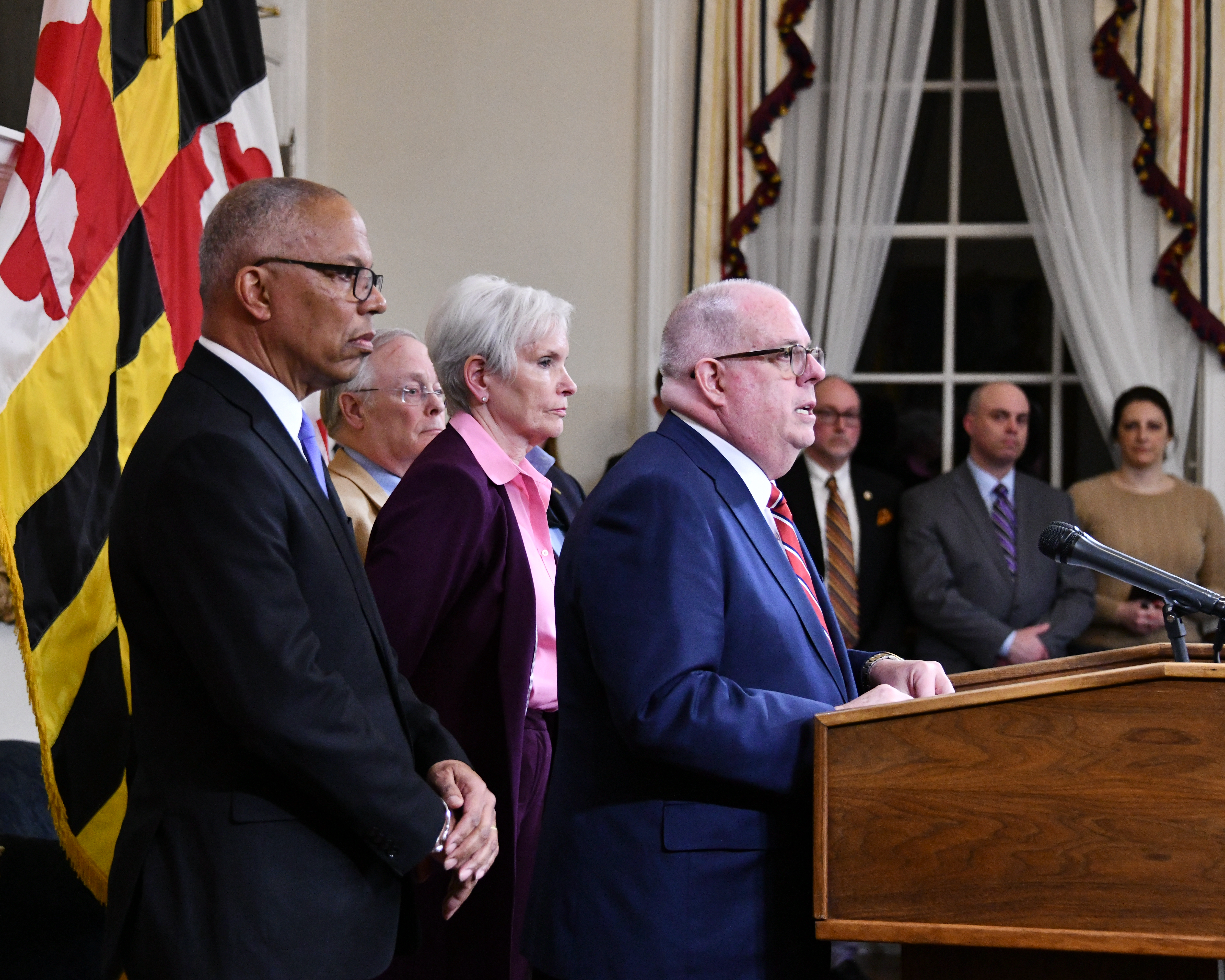 Governor Hogan Announces the first confirmed cases of the Coronavirus in Maryland by Joe Andrucyk, Patrick Siebert at Governor's Reception Room, 100 State Circle, Annapolis MD 21401